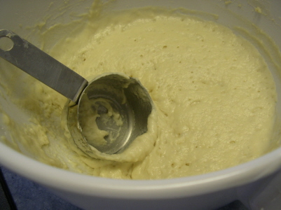 English muffin dough in a bowl with a metal scoop.